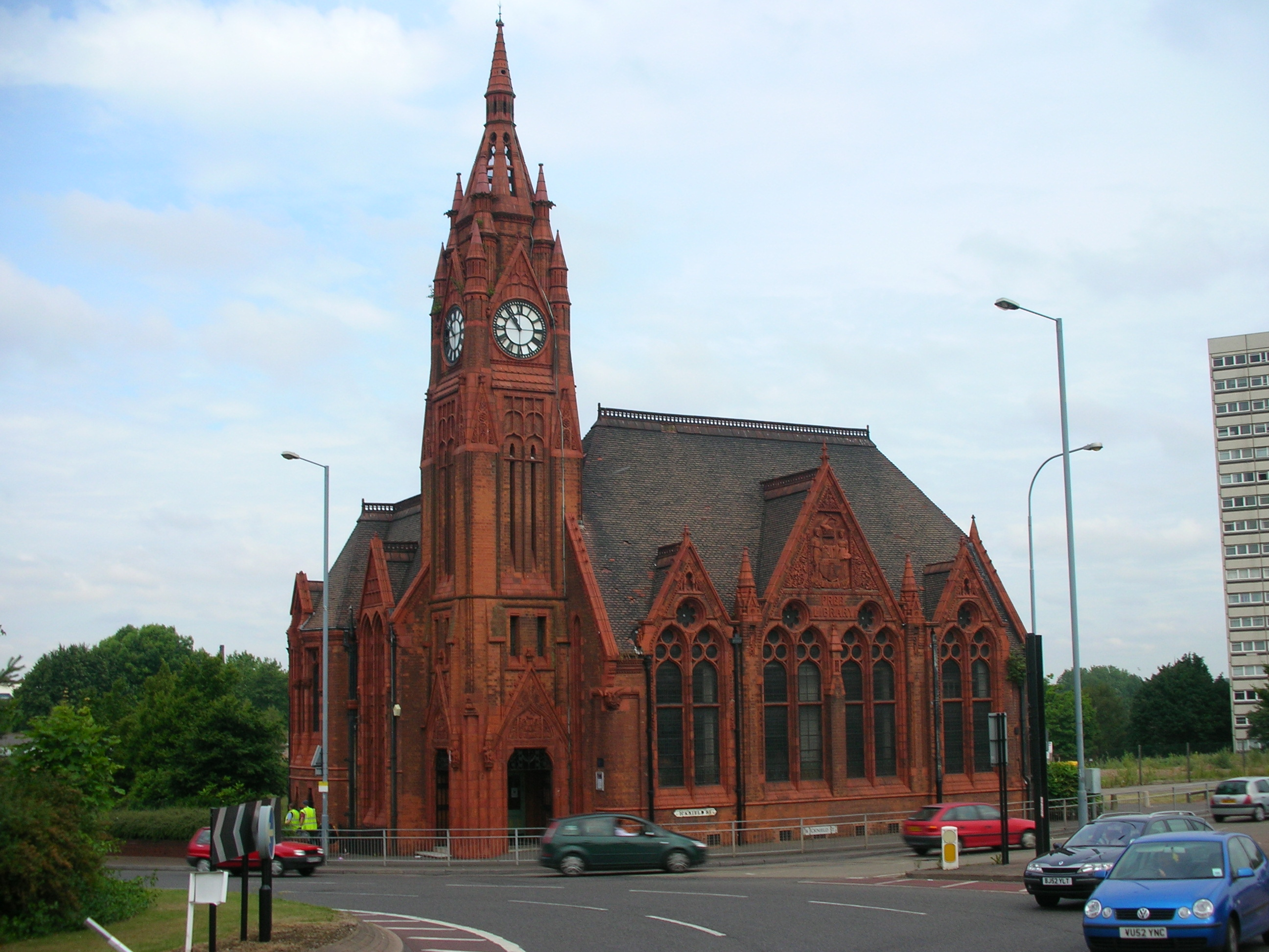 Spring Hill Library in Ladywood, Birmingham, England. A grade II* listed 1891 red brick and terracotta building by Martin & Chamberlain. Now standing alone after demolition of attached buildings. Photographed by me 26 June 2006. Oosoom